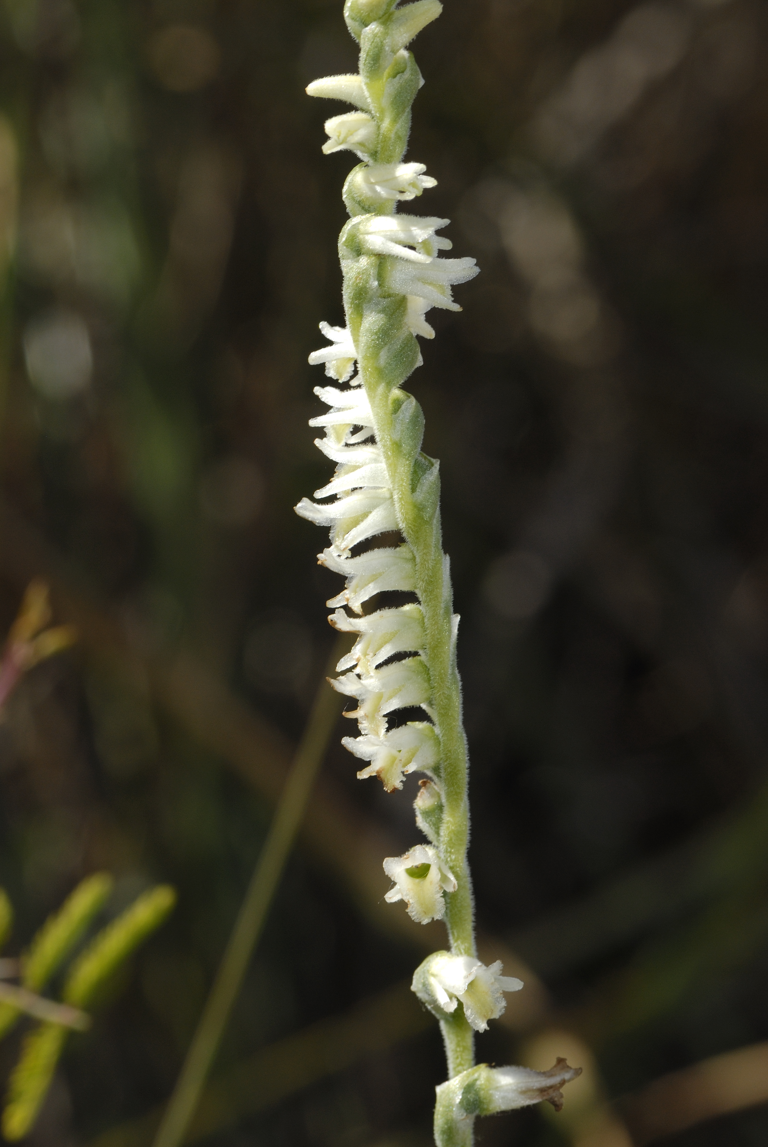 Spiranthes vernalis Everglades Long Pine Key Trail